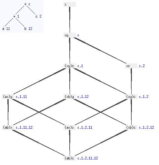 Lattice of generalizations of the term (a*b)*c, with a, b, c constants and x, y, z variables. Multiplication operators "*" are omitted in the picture. All involved terms are linear, i.e. don't contain multiple occurrences of the same variable. To the right of each term, the set of its paths leading to a function (or constant) symbol is shown in blue; the path numbering scheme is shown in the upper left corner for the term (a*b)*c. Join and meet in this lattice, i.e. anti-unification and unification of terms, corresponds to intersection and union of their path sets, respectively. Since this correspondance is a lattice isomorphism, the shown lattice is distributive. Similarly, every sublattice of the subsumption lattice of linear terms that doesn't contain Ω is distributive. See Subsumption lattice for a nondistributive sublattice of linear terms including Ω.